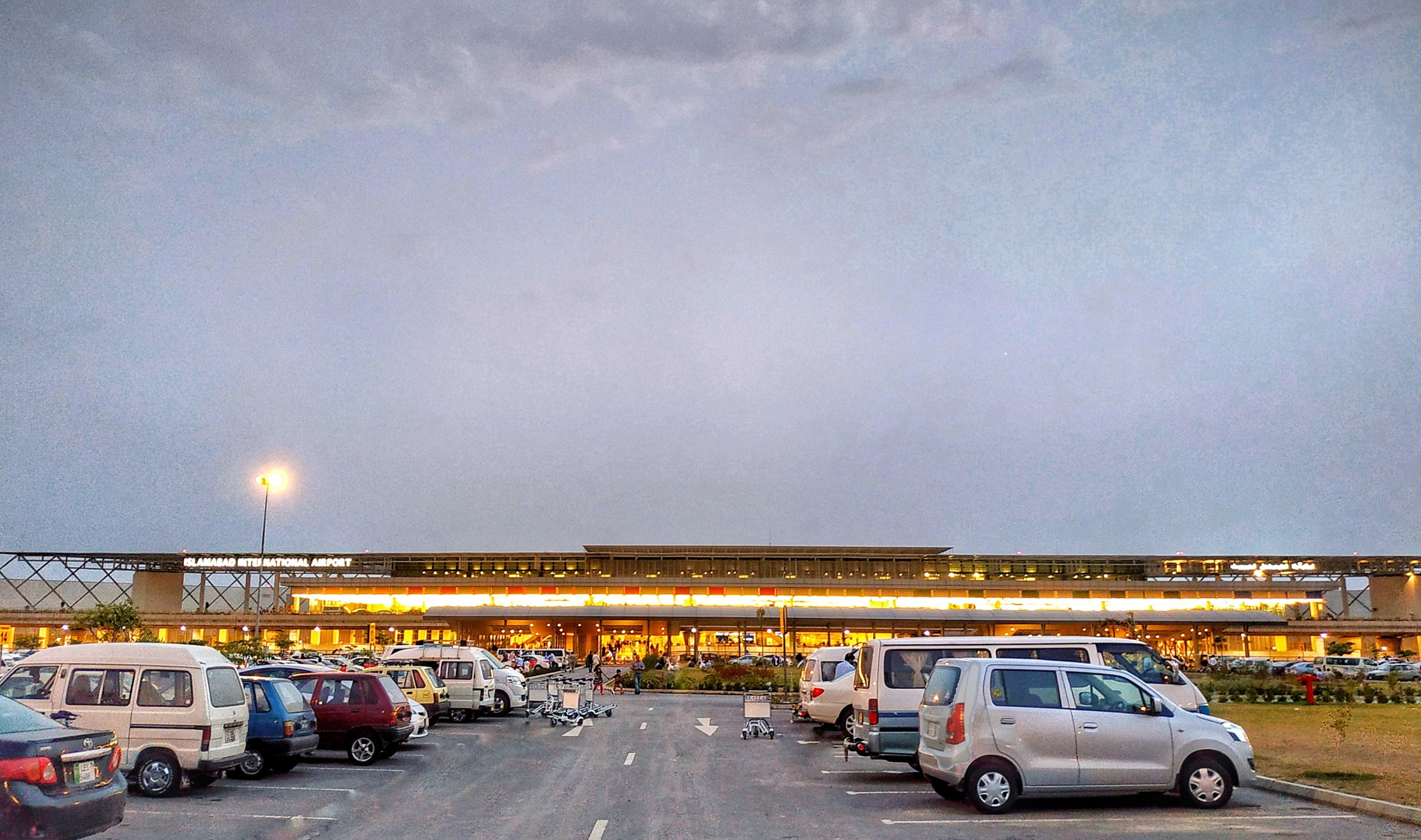 Front view of the Islamabad International Airport by Ahabbscience Studio.